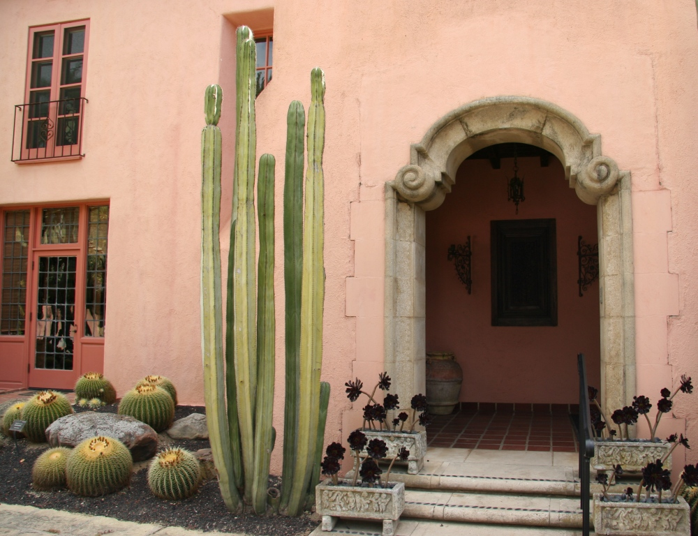 The entrance portal of the mansion at Lotusland — a unique landscape design and botanical garden, in Montecito near Santa Barbara, California. With a decumbant cultivar of tall Euphorbia ingens, Echinocactus grusonii, and Aeoniums, in a cacti and euphorbia entrance garden. Credits 15 Sep 2006, Northwest Horticulture Society Santa Barbara Tour. Photographed at Lotusland, Santa Barbara, California, U.S. i091506 158